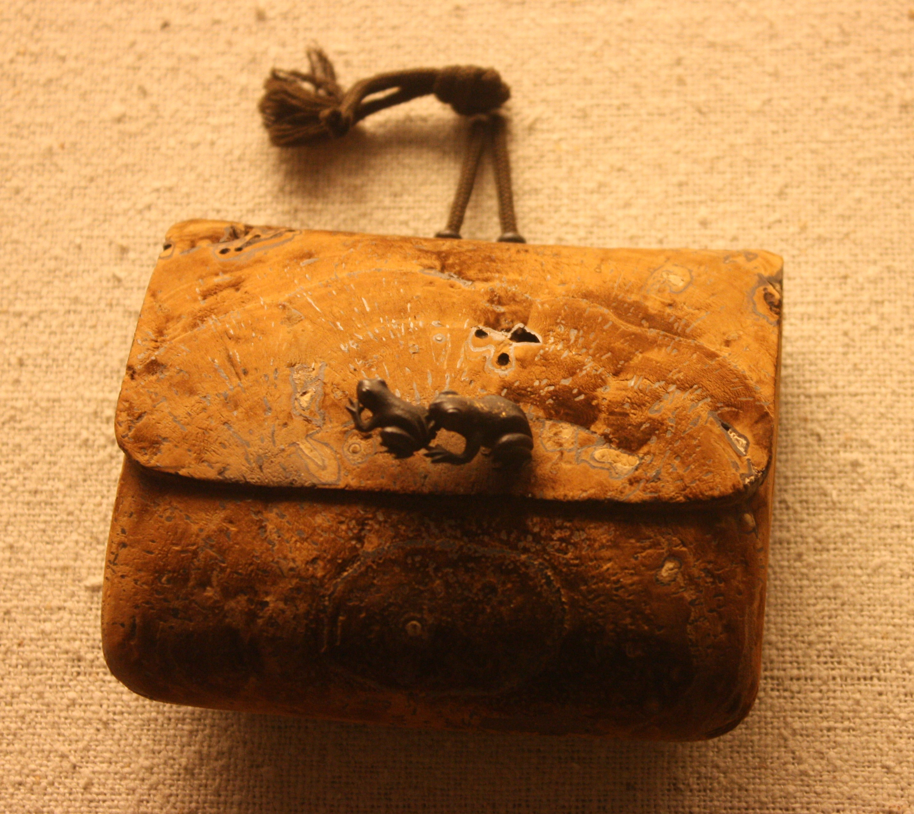 Tobacco-pouch Japan Dried and carved tree-fungus; wood flap with two gilded bronze frogs About 1800-1850 Museum no. W.49-1928 Clarke-Thornhill Gift Wikipedia Loves Art at the Victoria and Albert Museum This photo of item # [1] at the Victoria and Albert Museum was contributed under the team name "va_va_val" as part of the Wikipedia Loves Art project in February 2009. Victoria and Albert Museum The original photograph on Flickr was taken by Val_McG—please add a comment to the original Flickr page whenever a use has been made on Wikipedia or another project. Project galleries on Flickr: this institution, this team